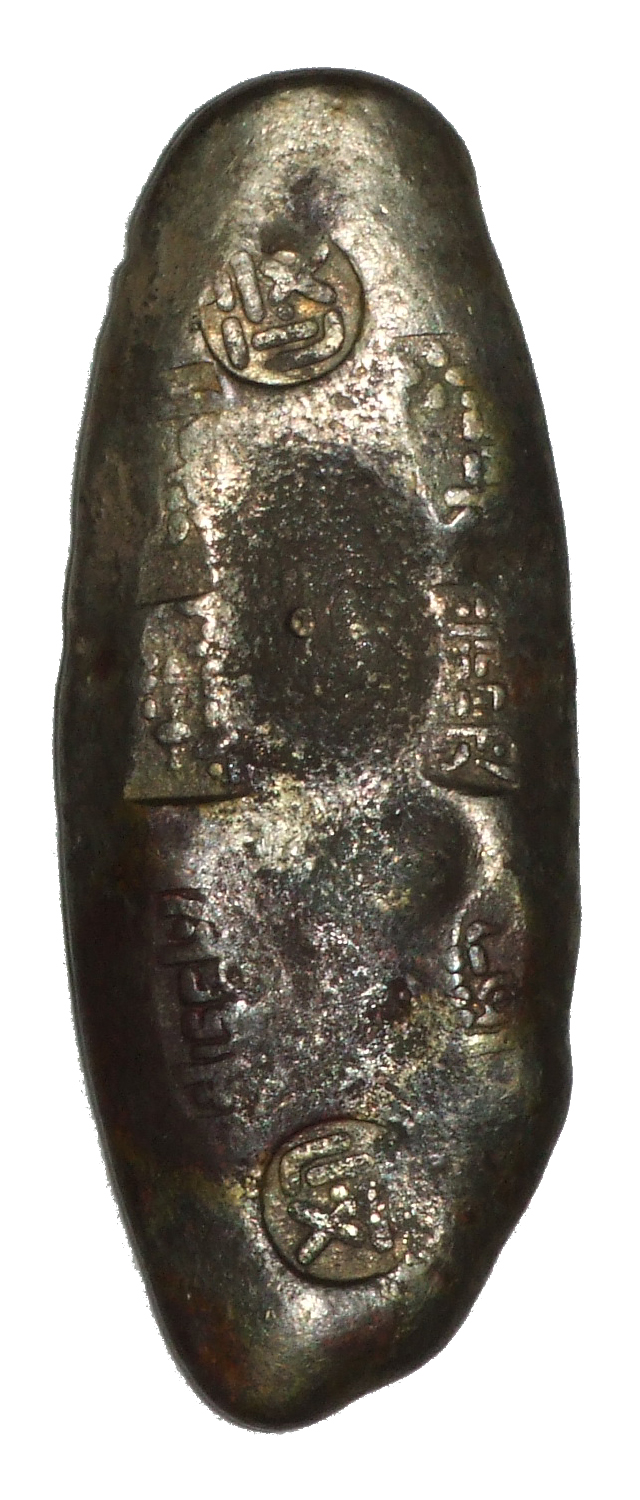 Seizi-chogin(silver)